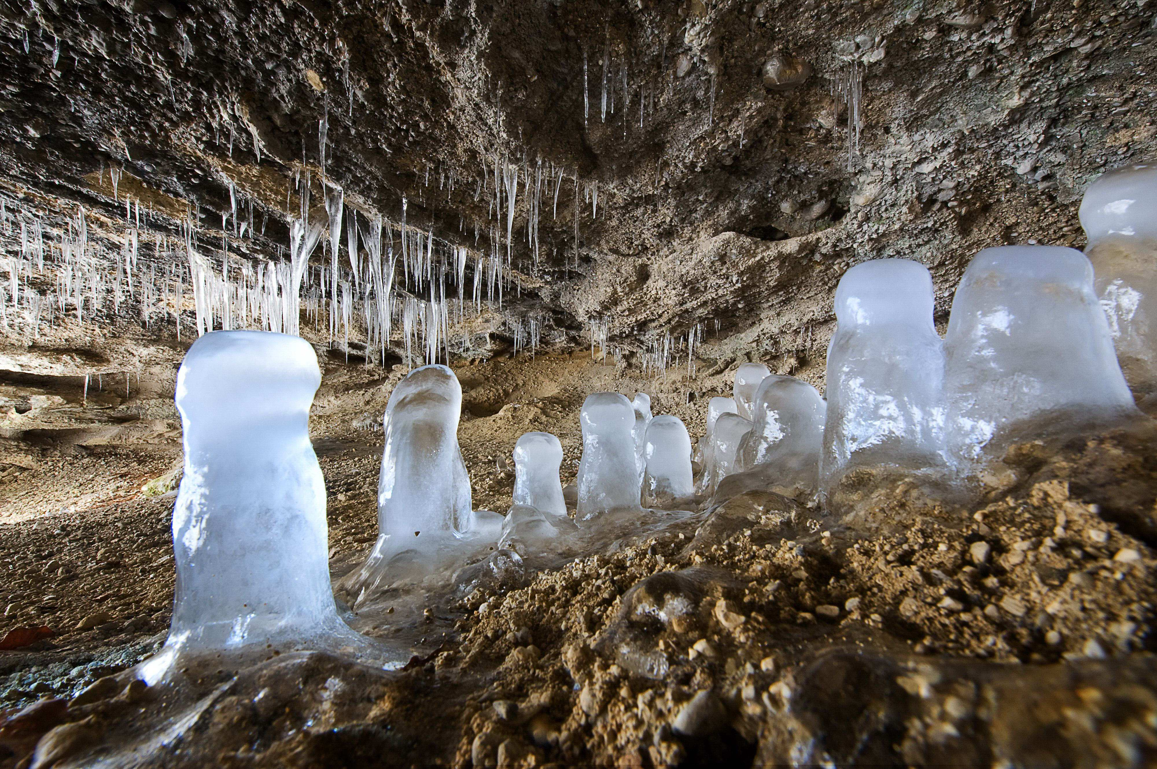 Cave with stalactites and stalagmites made of ice near Wackersberg, Bavaria, Germany, registered as geotope 173H001.